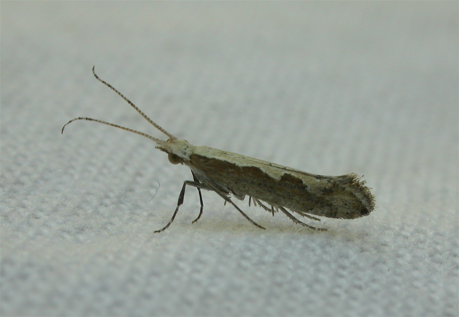 Plutella xylostella (Linnaeus, 1758), to MV light, Aranda, ACT, 20/21 September 2008